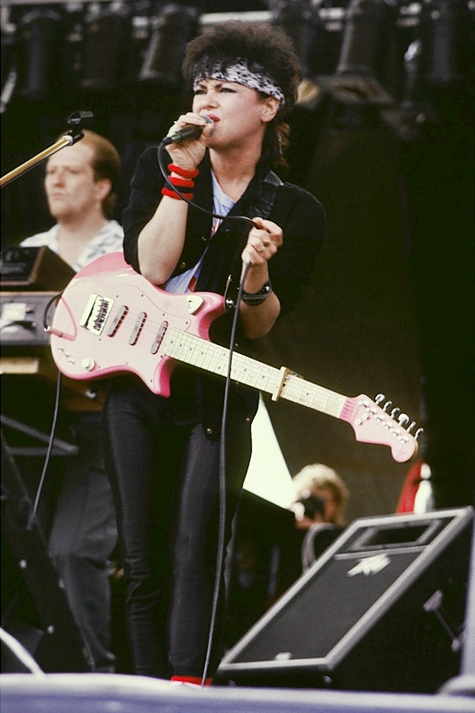 Ina Deter, German "Rocklady" at an Open Air Festival in Hannover, Germany in 1983(?)